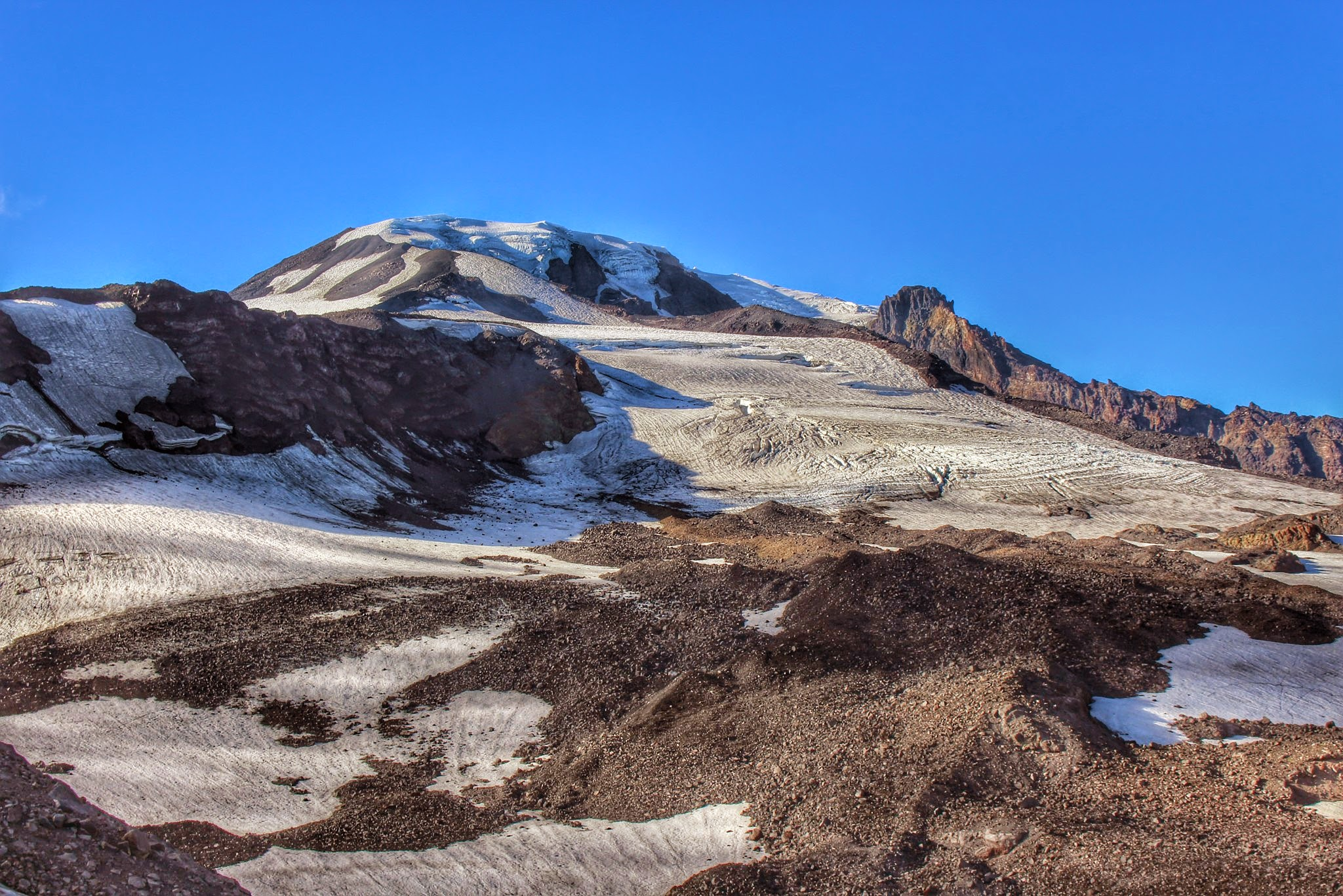 Taken just above Iceberg Lake, in the Mount Adams Recreation Area. This is the SE side of the mountain.